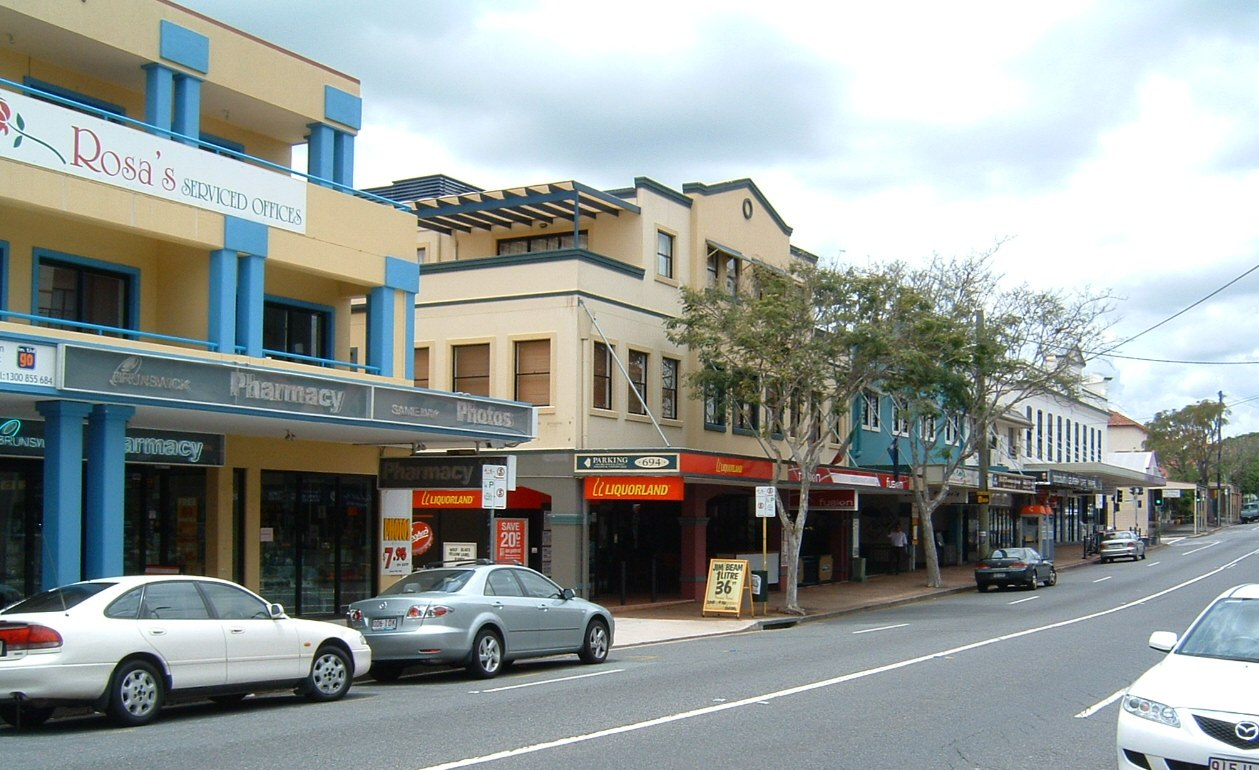 New Farm Village, located on Brunswick Street in the suburb of New Farm, Queensland. Photo taken by User:Adz on 8 November 2005.